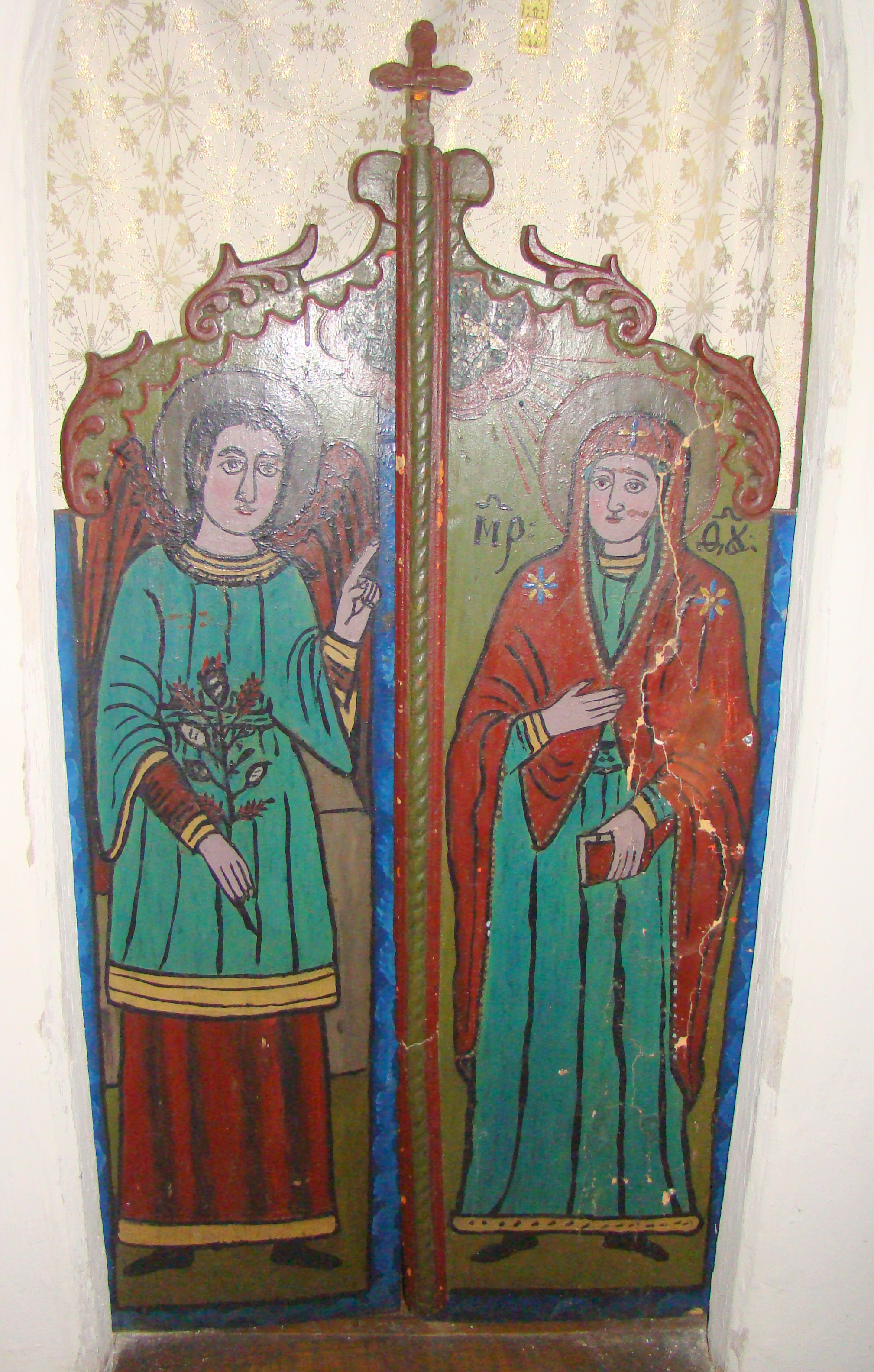 Archangels' church in Inand, Bihor county, Romania